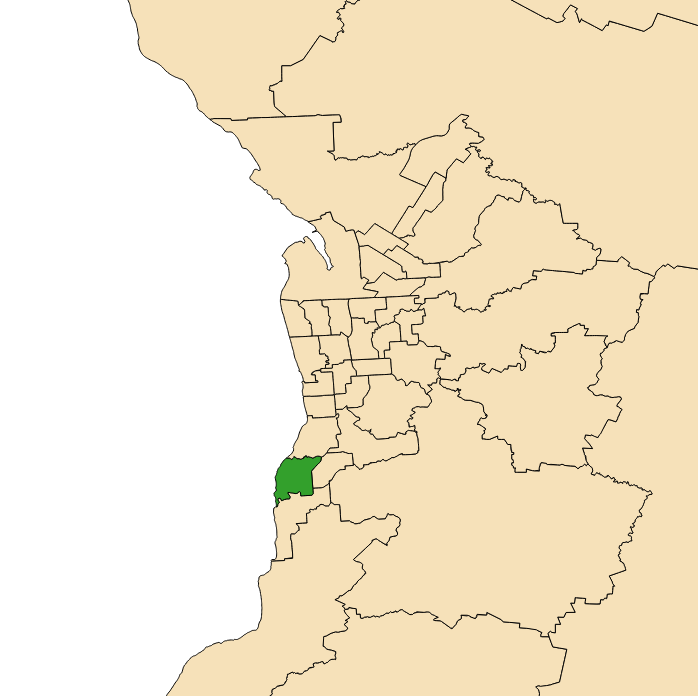 Electoral district 2018 boundaries shown in green